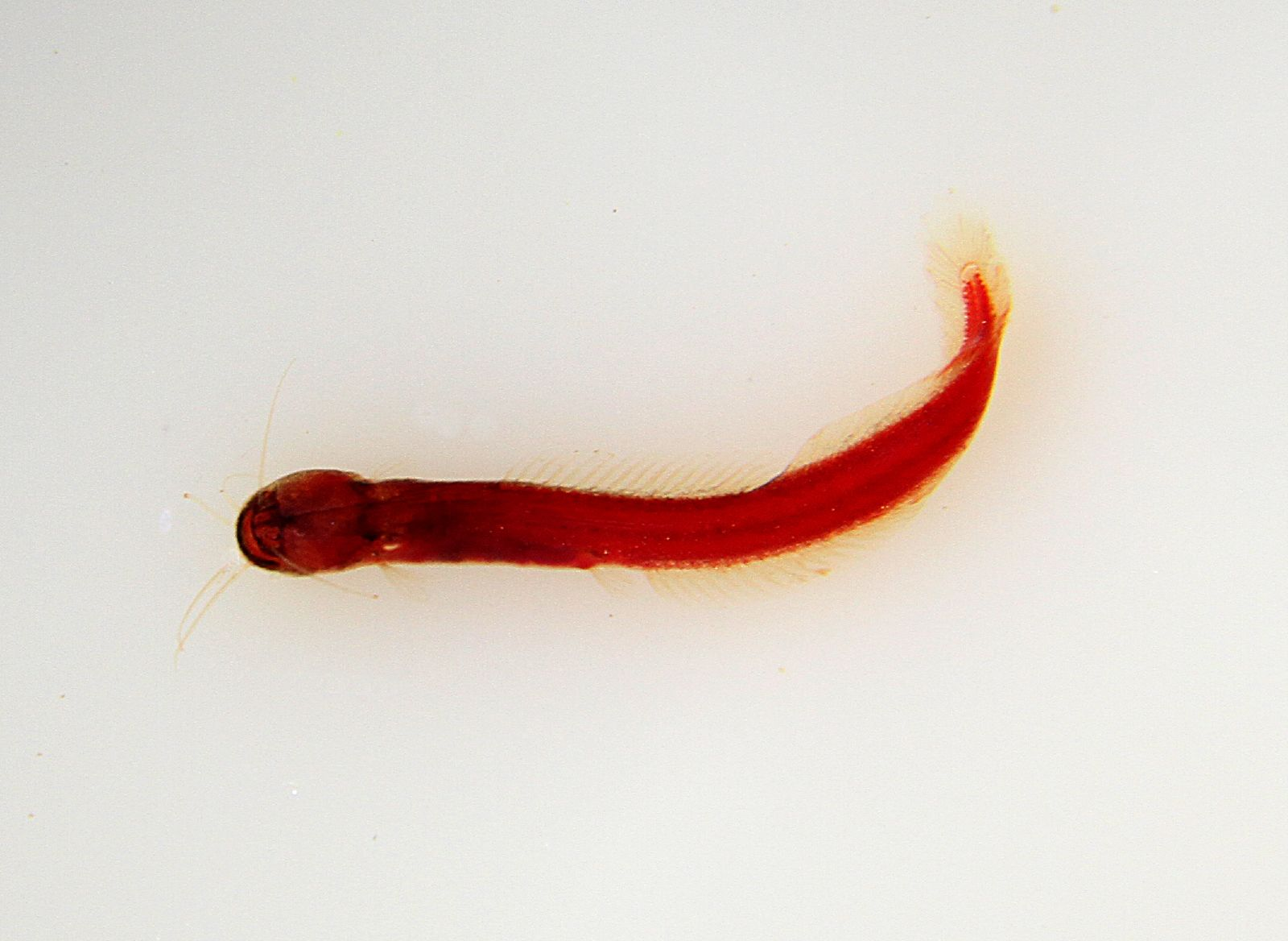 Phreatobius n sp